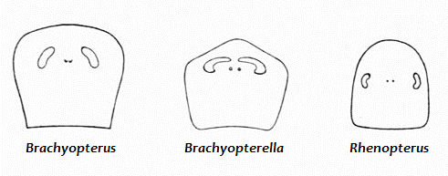 Comparison of carapaces of the Rhenopteridae, adapted from this public domain image